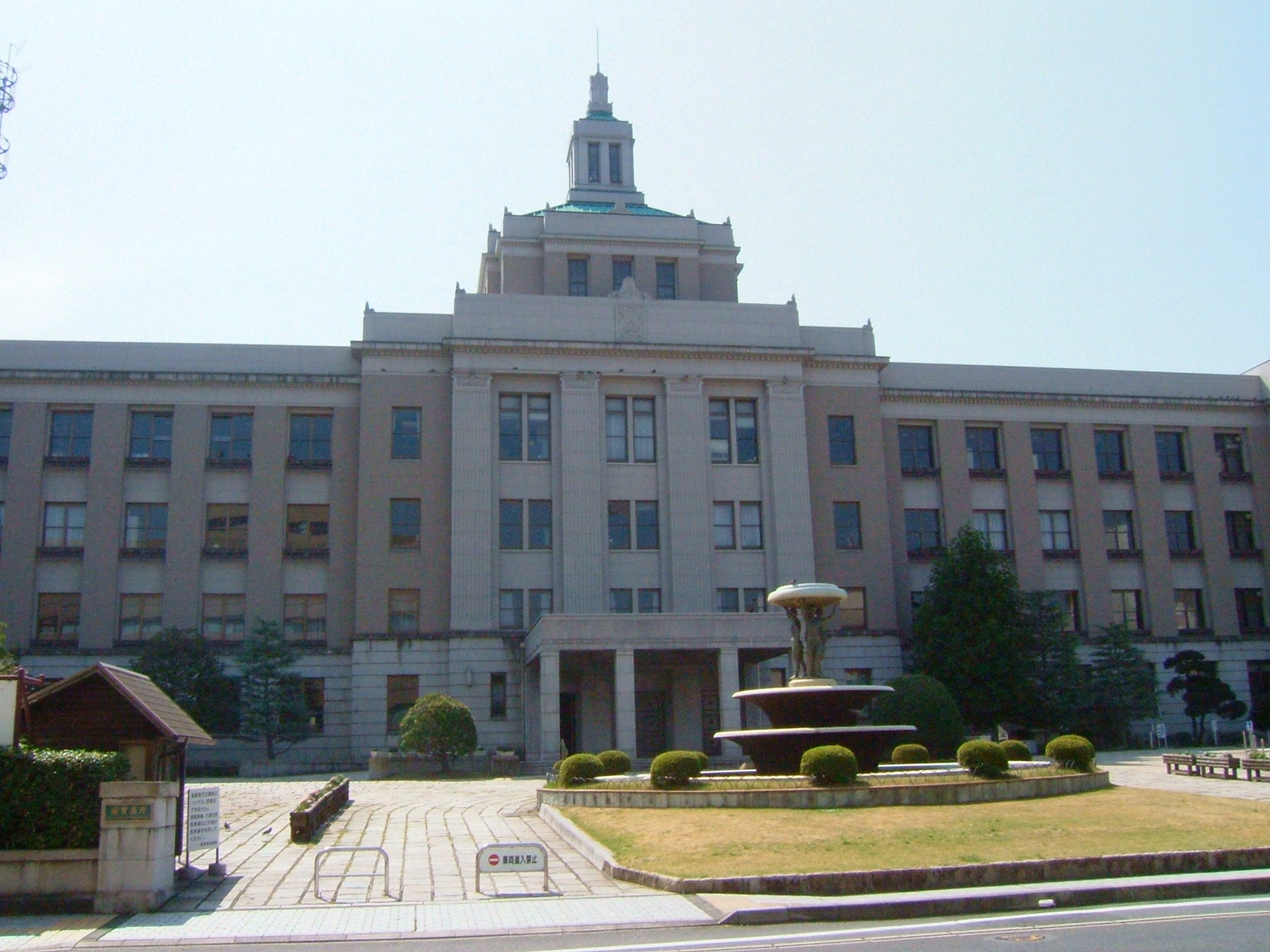 Shiga Prefectural Office(Otsu,Shiga)